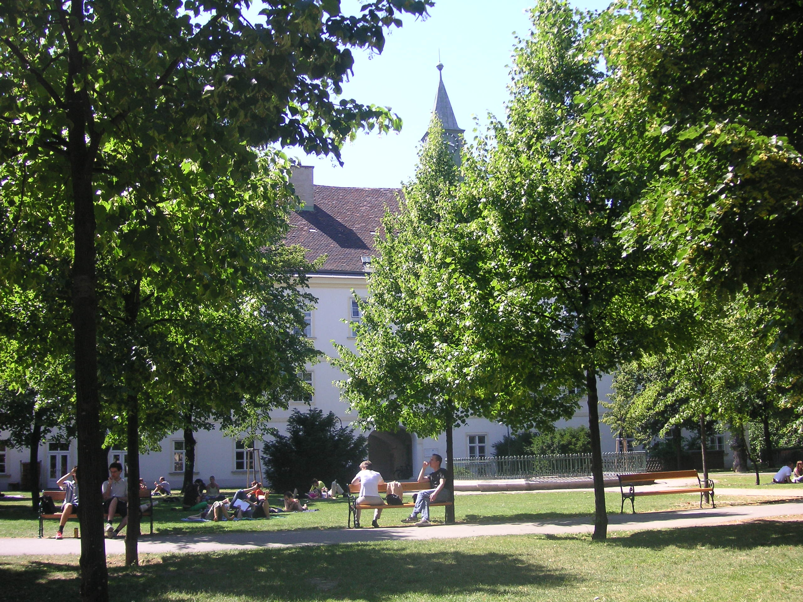 The Universitätscampus Wien houses many of the EN:humanities departments of the EN:University of Vienna. Situated in EN:Vienna's 9th district, EN:Alsergrund, a 15 minutes' walk away from the main building, the campus was opened in EN:1998 after Vienna's General Hospital (Allgemeines Krankenhaus), which had used the EN:18th century buildings up till then, had moved away to a new location. Photo by KF, towards the end of the summer term EN:2005 (24 June 2005). This work has been released into the public domain by its author, KF. This applies worldwide. In some countries this may not be legally possible; if so: KF grants anyone the right to use this work for any purpose, without any conditions, unless such conditions are required by law.